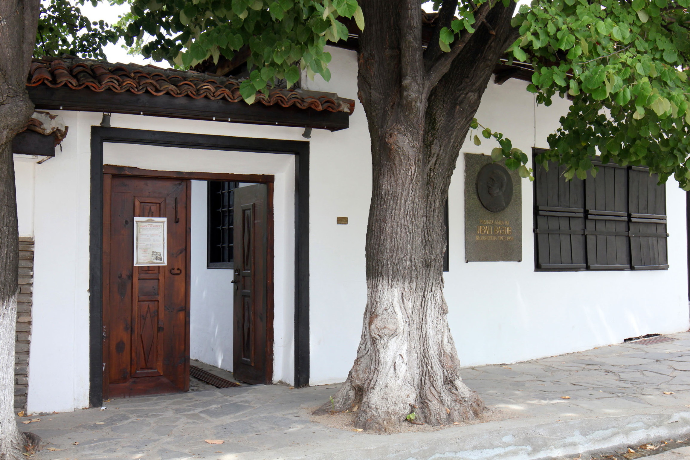 The house-museum of Ivan Vazov in town of Sopot